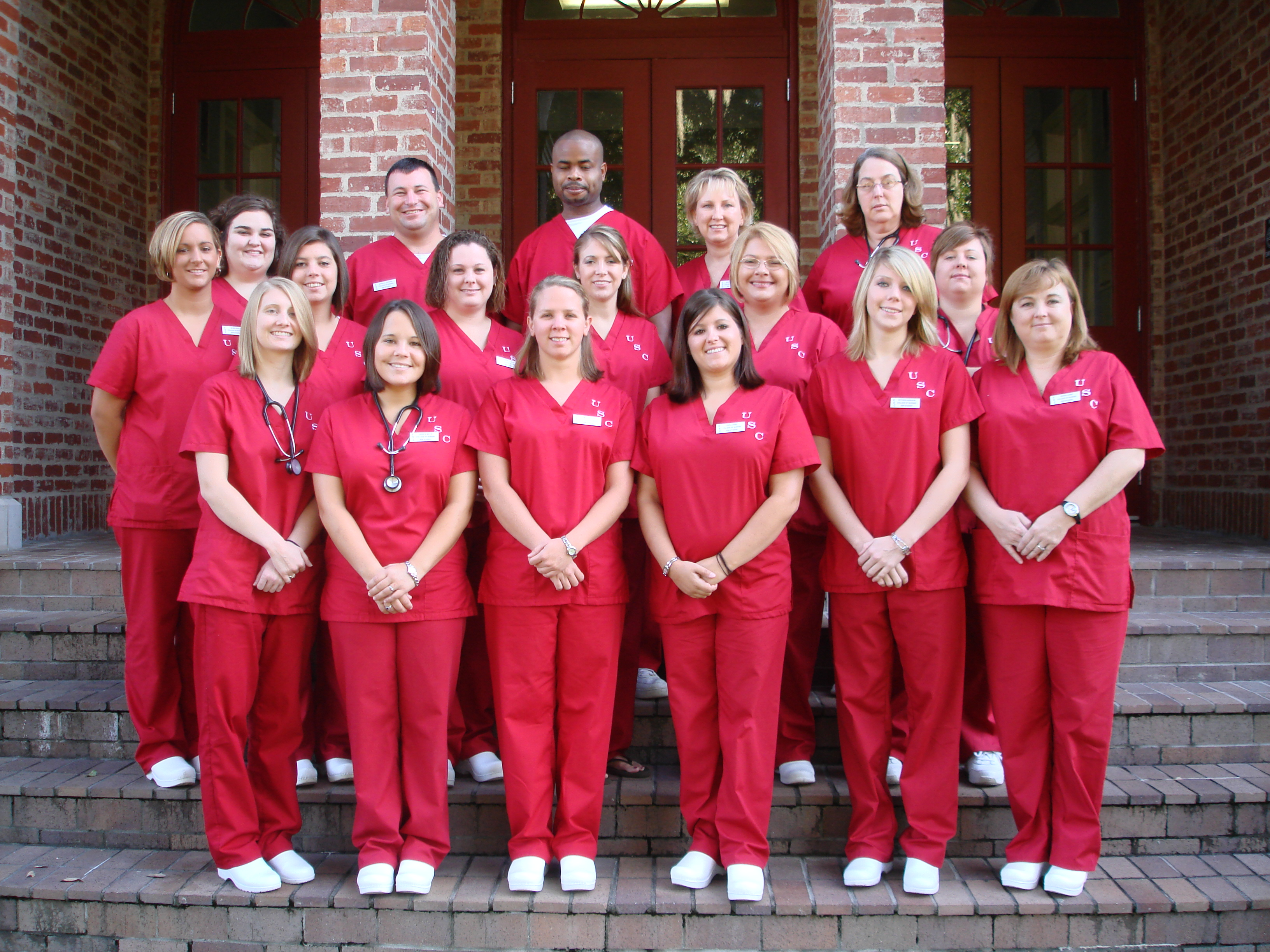 Orginal 16 salk nursing students